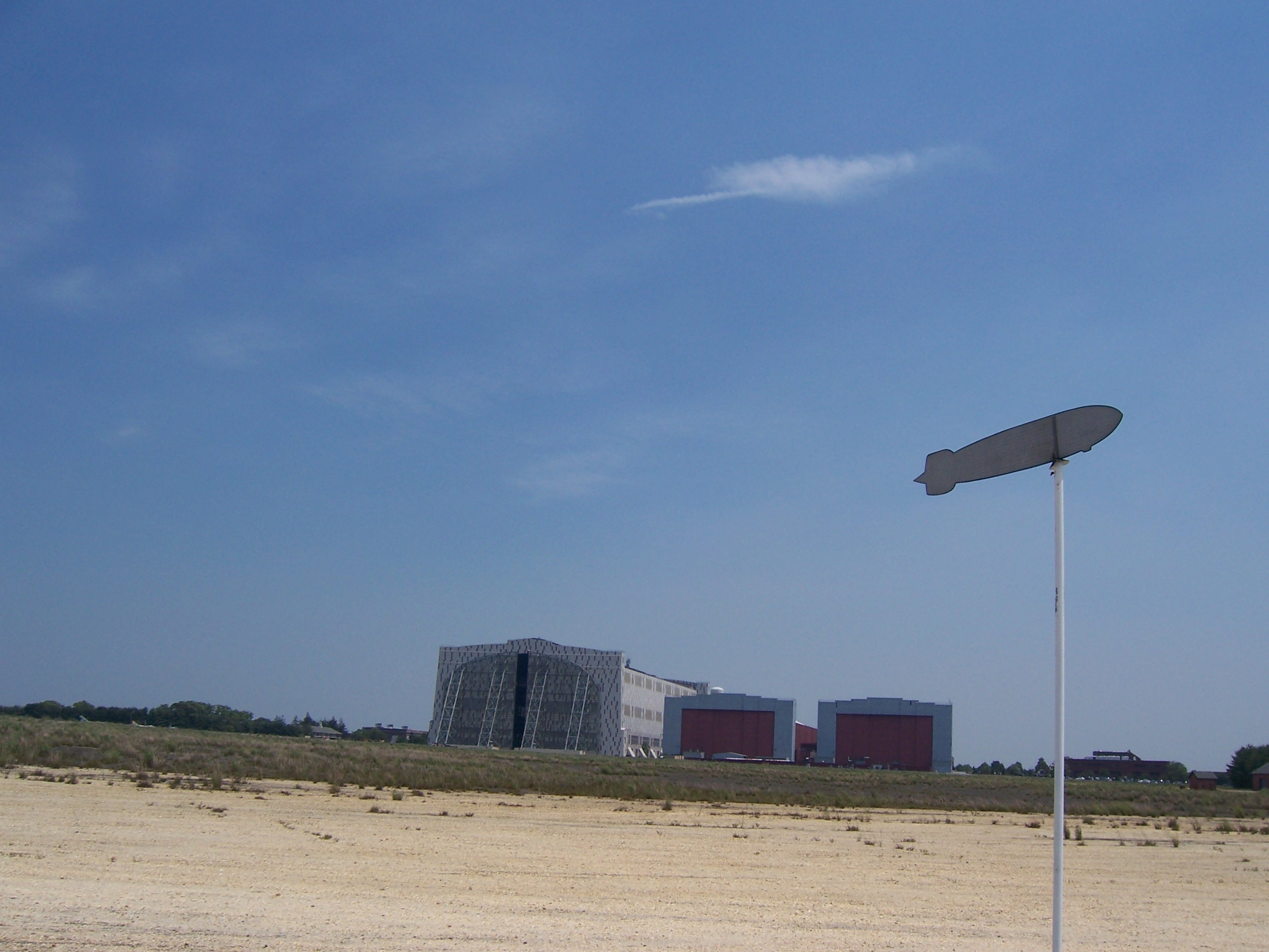 Taken By me, Mike Romano. Released to all.